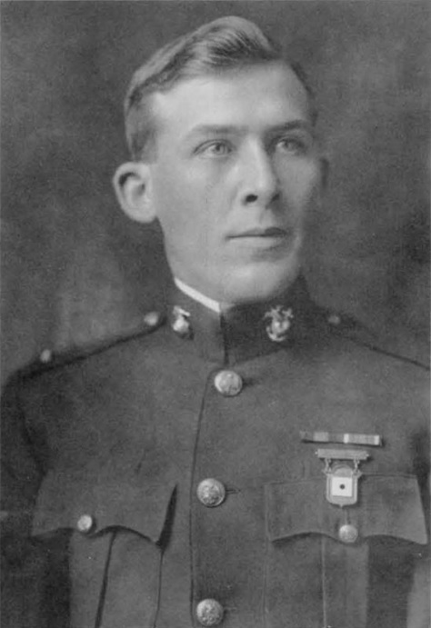 Ralph Stover Keyser (May 10, 1883 – April 19, 1955) was a highly decorated officer of the United States of America with the rank of Major General, who is most noted for his service as the 11th Assistant to the Major General Commandant of the Marine Corps and a distinguished marksman, who participated in world matches. He was the recipient of Navy Cross, the United States military's second-highest decoration awarded for valor in combat. Shown here as First lieutenant.